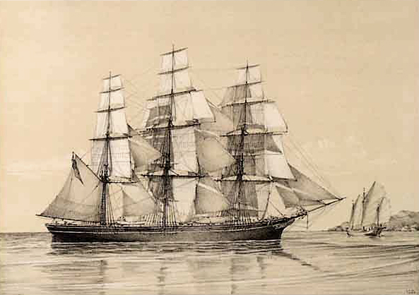 The extreme clipper N.B. Palmer, 1399 tons, was launched at the New York shipyard of Westervelt & Mackey on February 5, 1851.